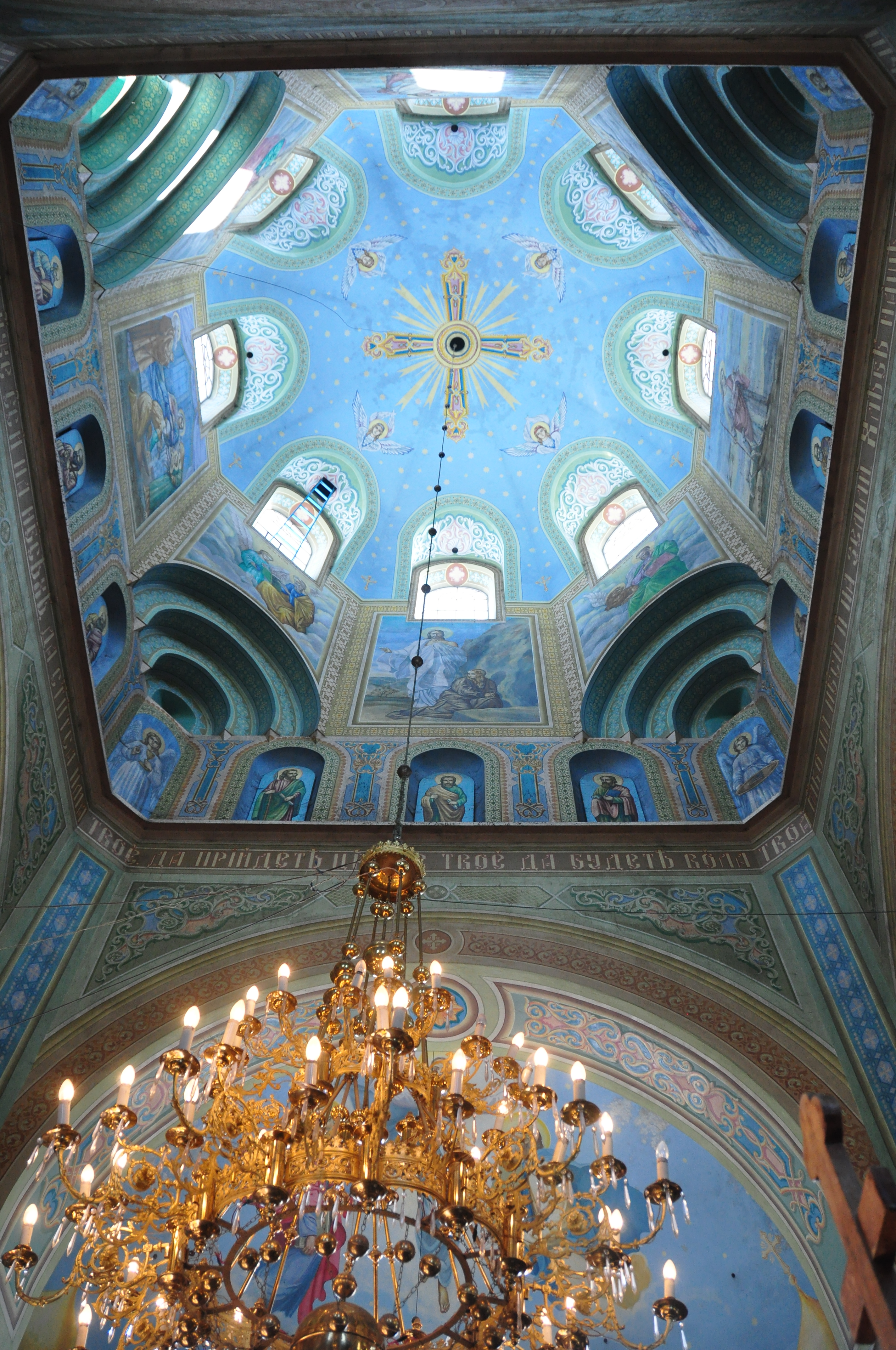 Cupola of the Church of Assumption of the Blessed Virgin Mary. Velyki Hlibovychi village, Peremyshliany Raion, Lviv Oblast